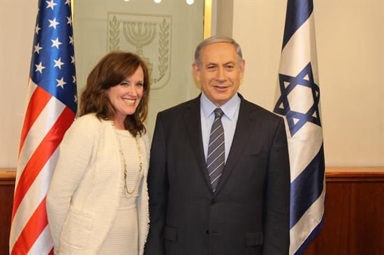 Israeli Prime Minister Benjamin Netanyahu and United States Representative Kathleen Rice.